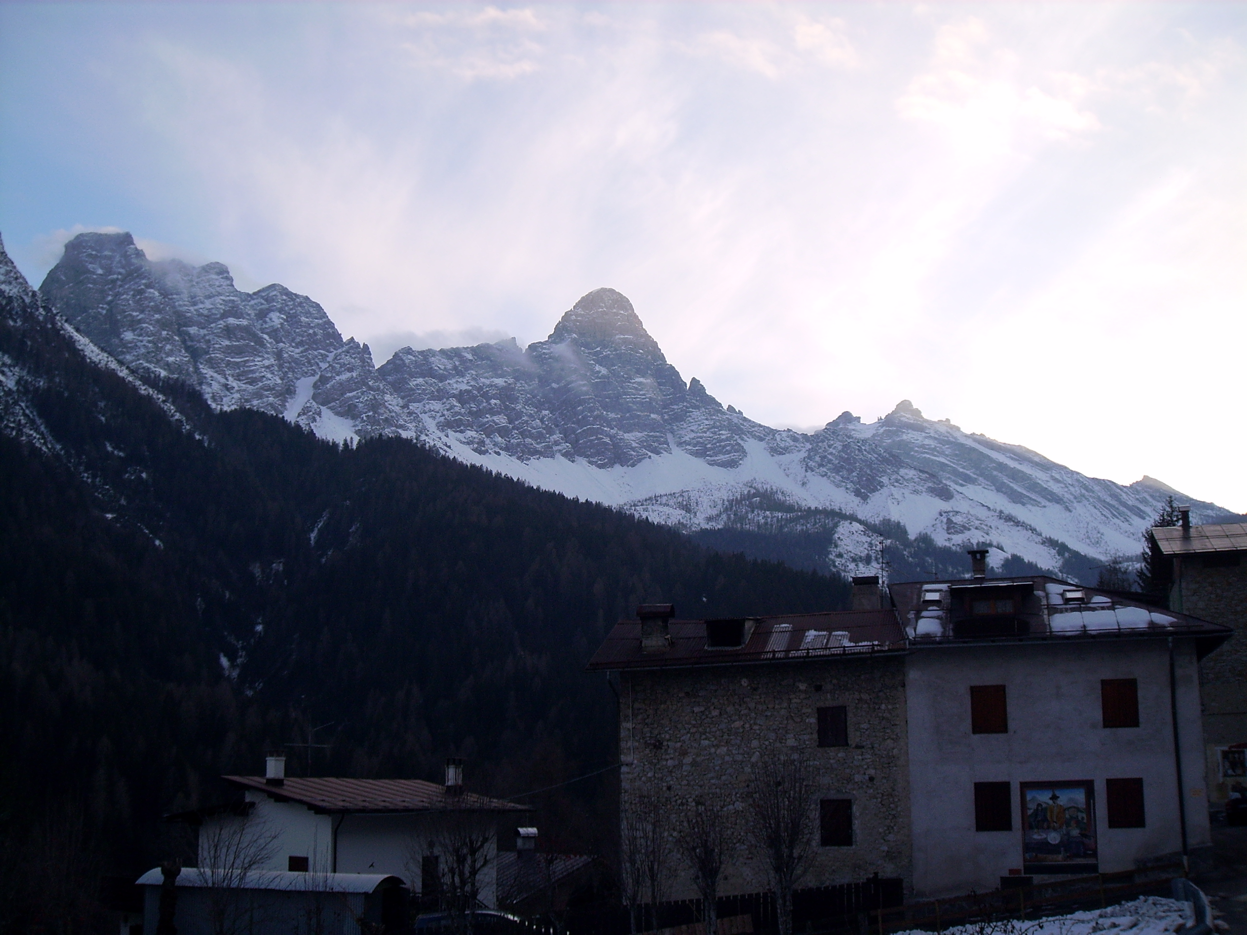 Mountains in Cibiana di Cadore, Belluno, Veneto, Dolomites, Italy